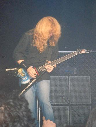 Megadeth frontman, Dave Mustaine in the middle of their set at the Gigantour concert in Hard Rock Live, Orlando, Florida, 2005-08-06